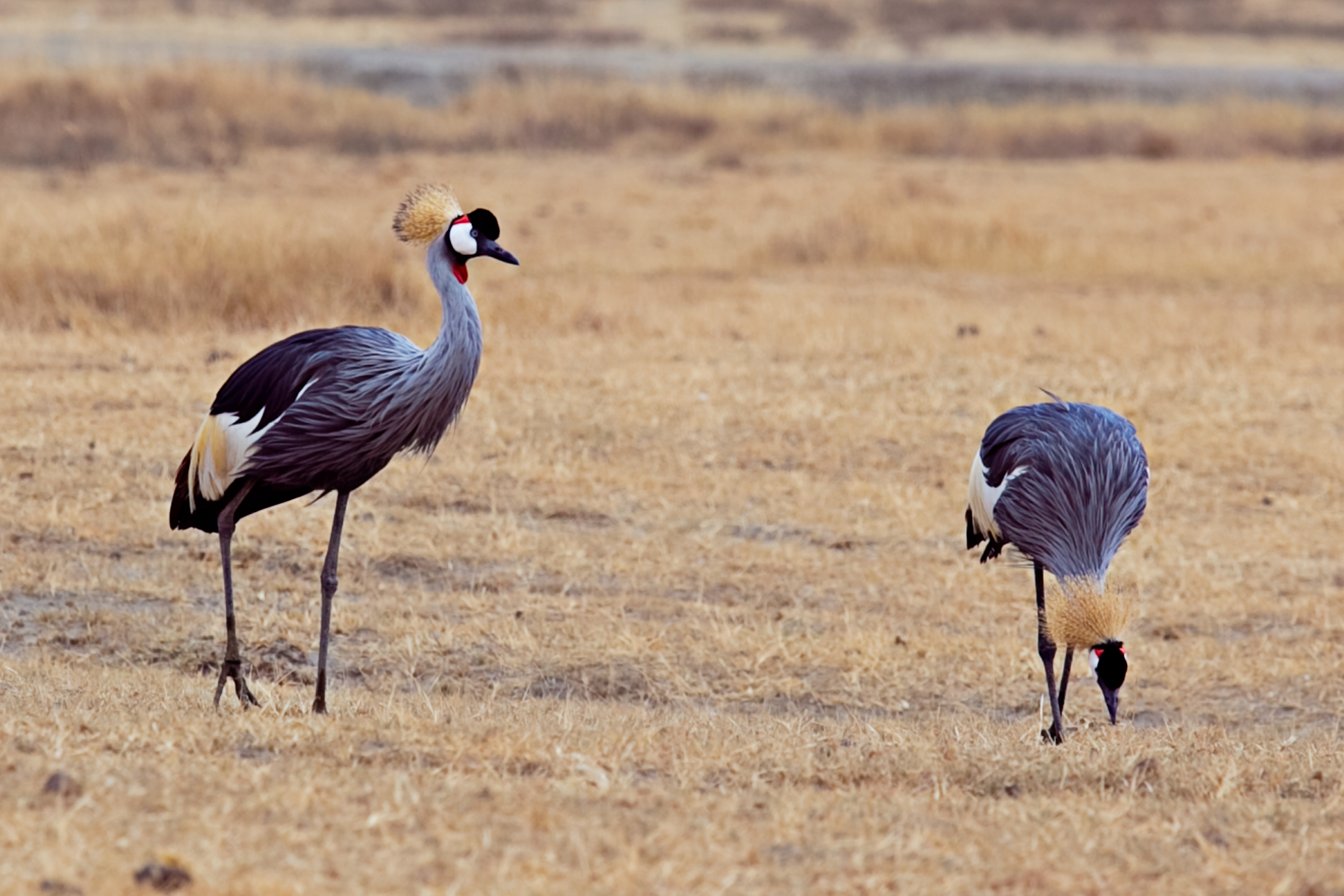 Two Grey Crowned Cranes in Tanzania.